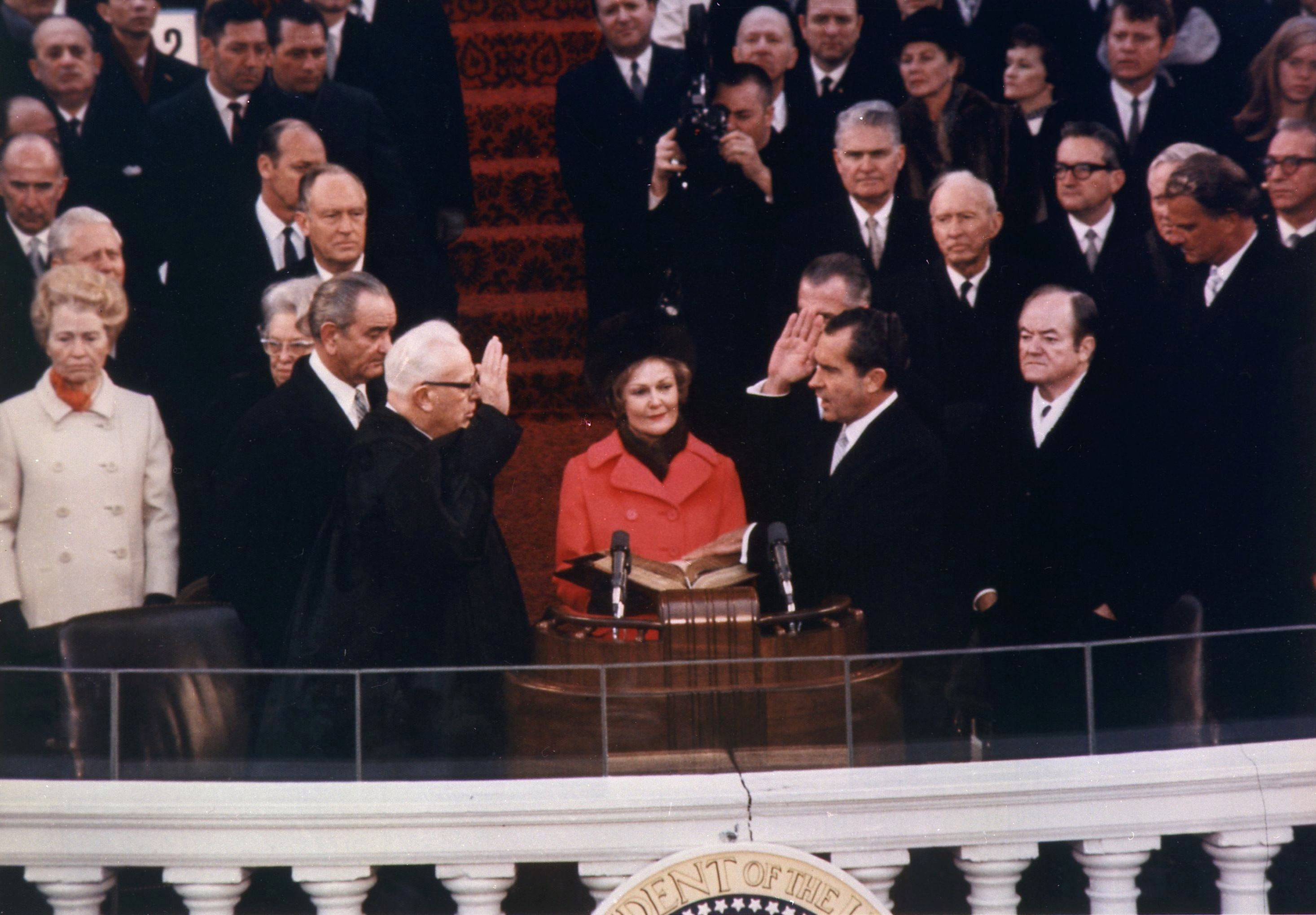 Richard Nixon being inaugurated as the 37th President of the United States